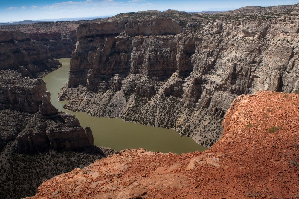 Bighorn Canyon National Recreation Area